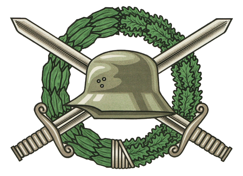 Emblem of the Heimatschutz movement in Austria in the 1930s.